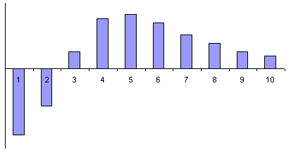 Gap